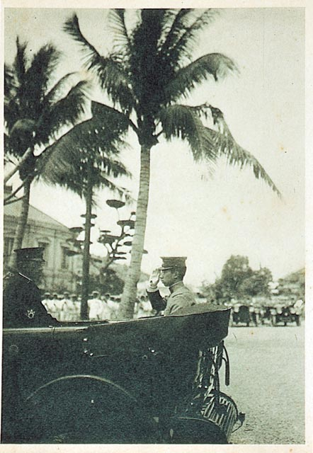 Prince Hirohito visits Takao